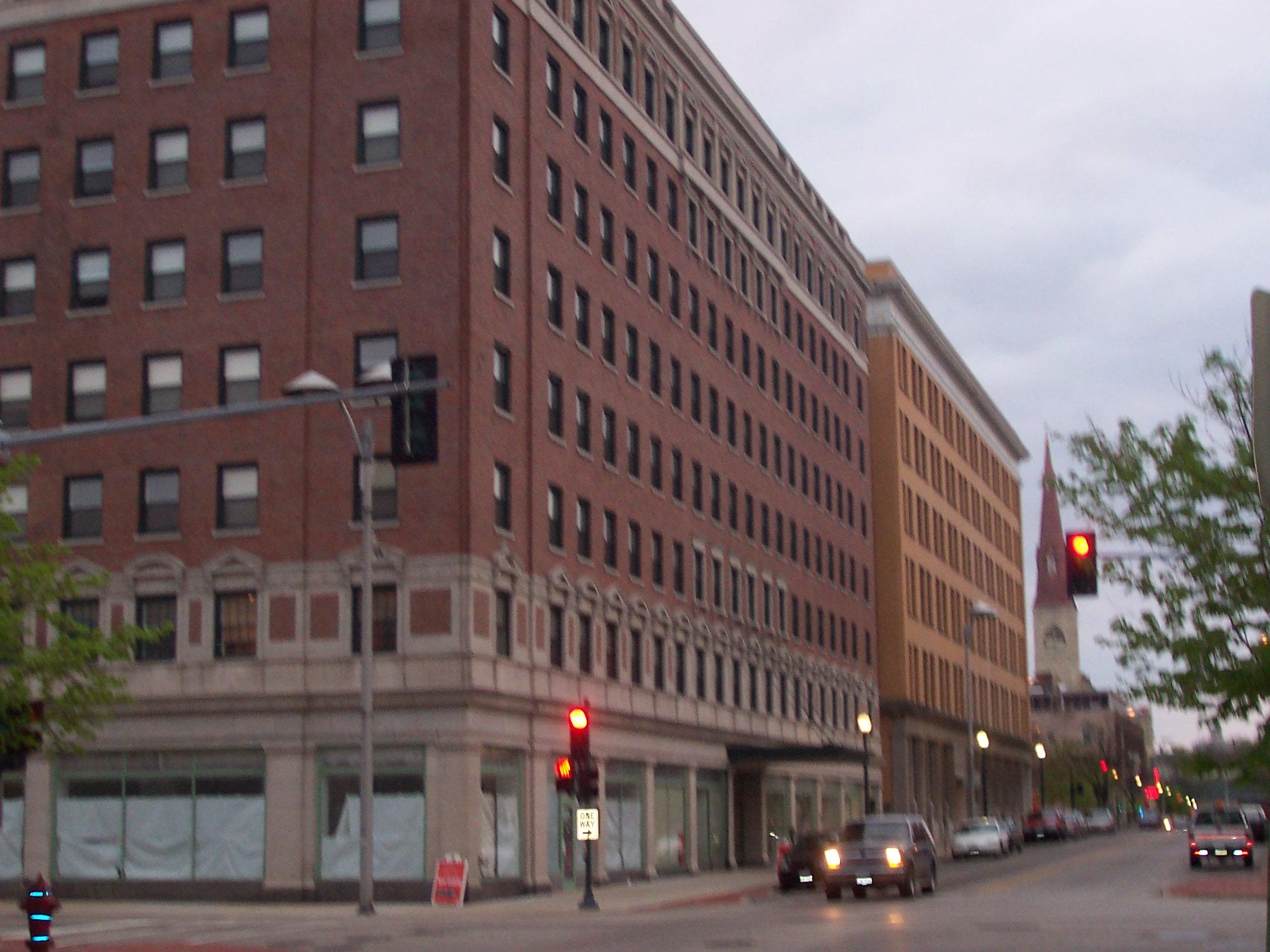 Picture taken in downtown Joliet, the historical Louis Joliet building is in front.